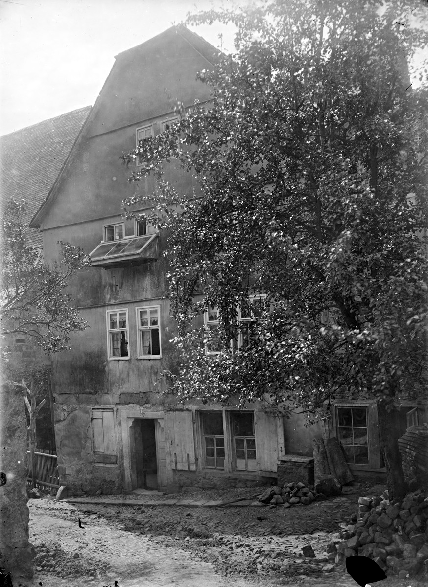 House of Ludwig Bickell in Marburg Kugelgasse 1.